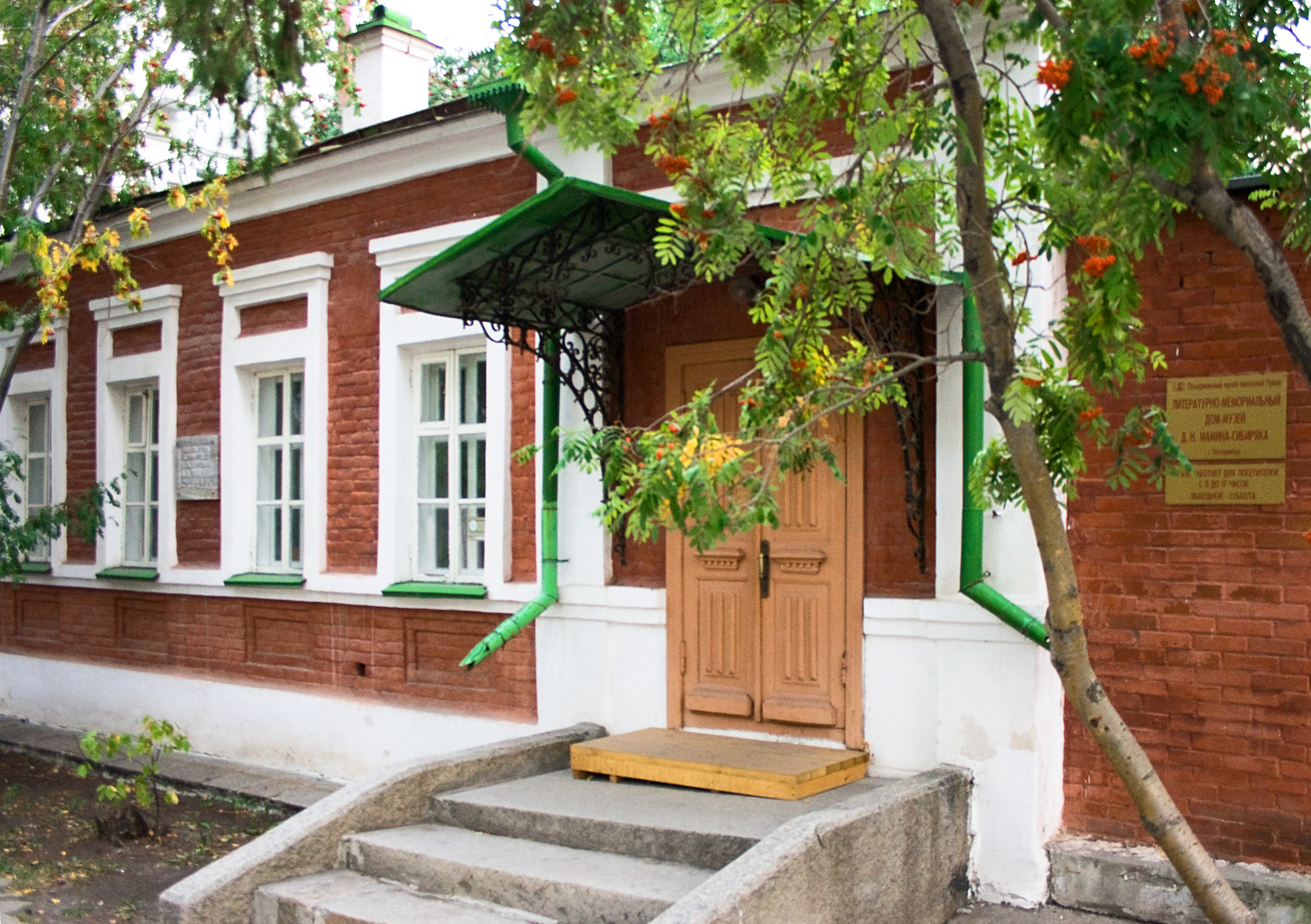 Екатеринбург 0022 Дом Мамина-Сибиряка